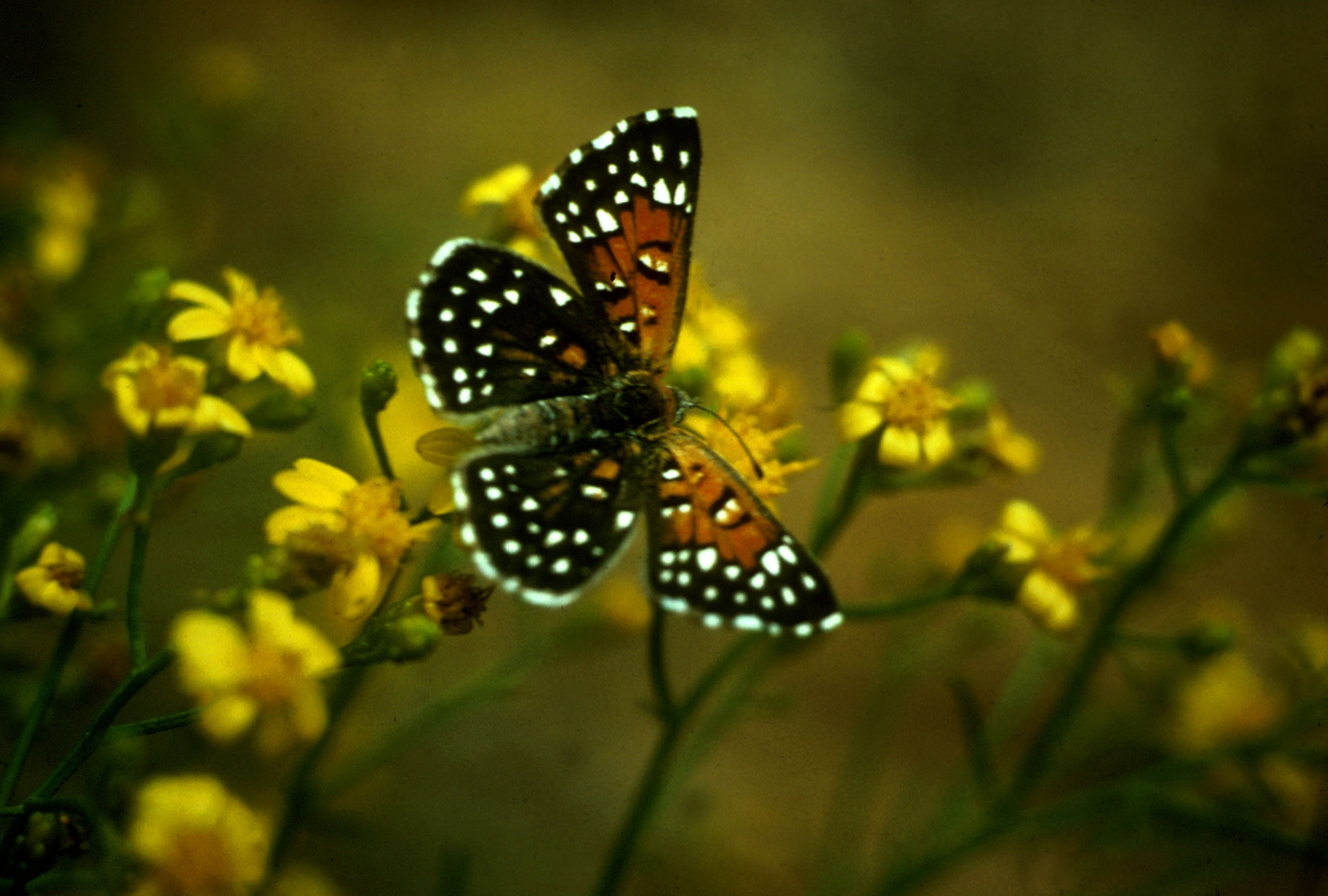 Lange's metalmark butterfly (Apodemia mormo langei)